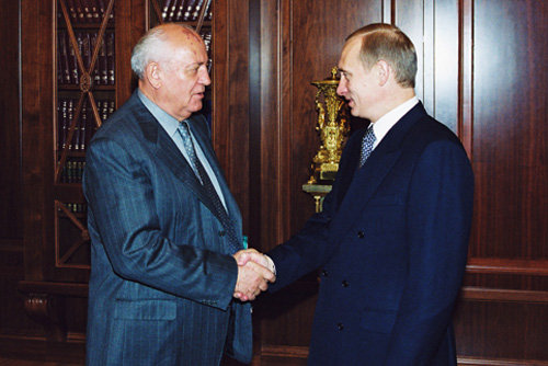 THE KREMLIN, MOSCOW. Vladimir Putin and former President of the Soviet Union Mikhail Gorbachev.